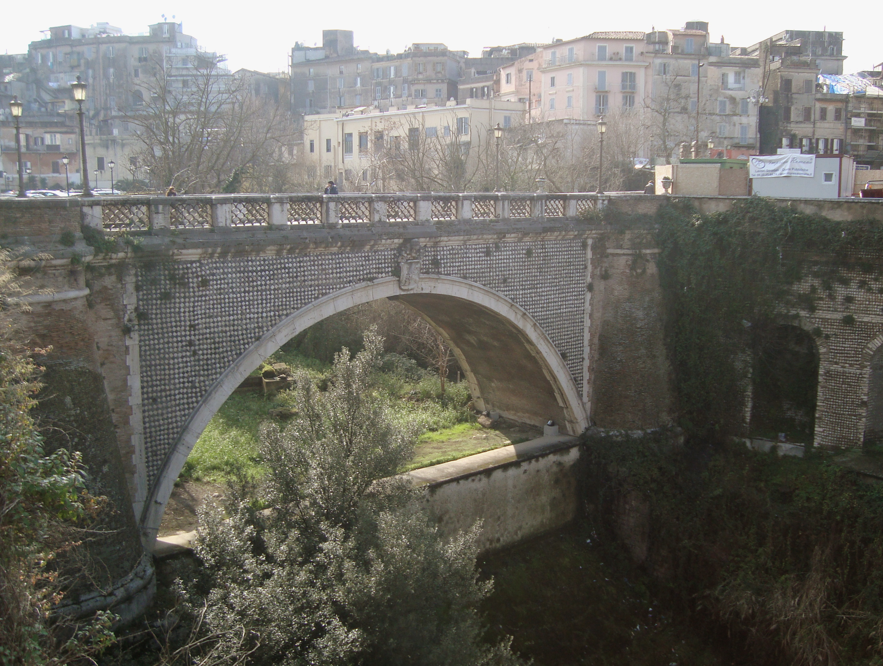 The Gregorian Bridge in Tivoli built in 1835 and restored in 1944